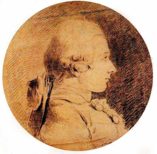 Portrait of Donatien Alphonse François de Sade by Charles Amédée Philippe van Loo. The drawing dates to 1760, when the Sade was nearly 20 years old. It's the only known authentic portrait of the Marquis.